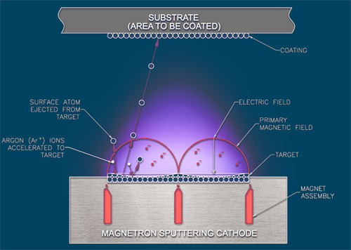 sputtering